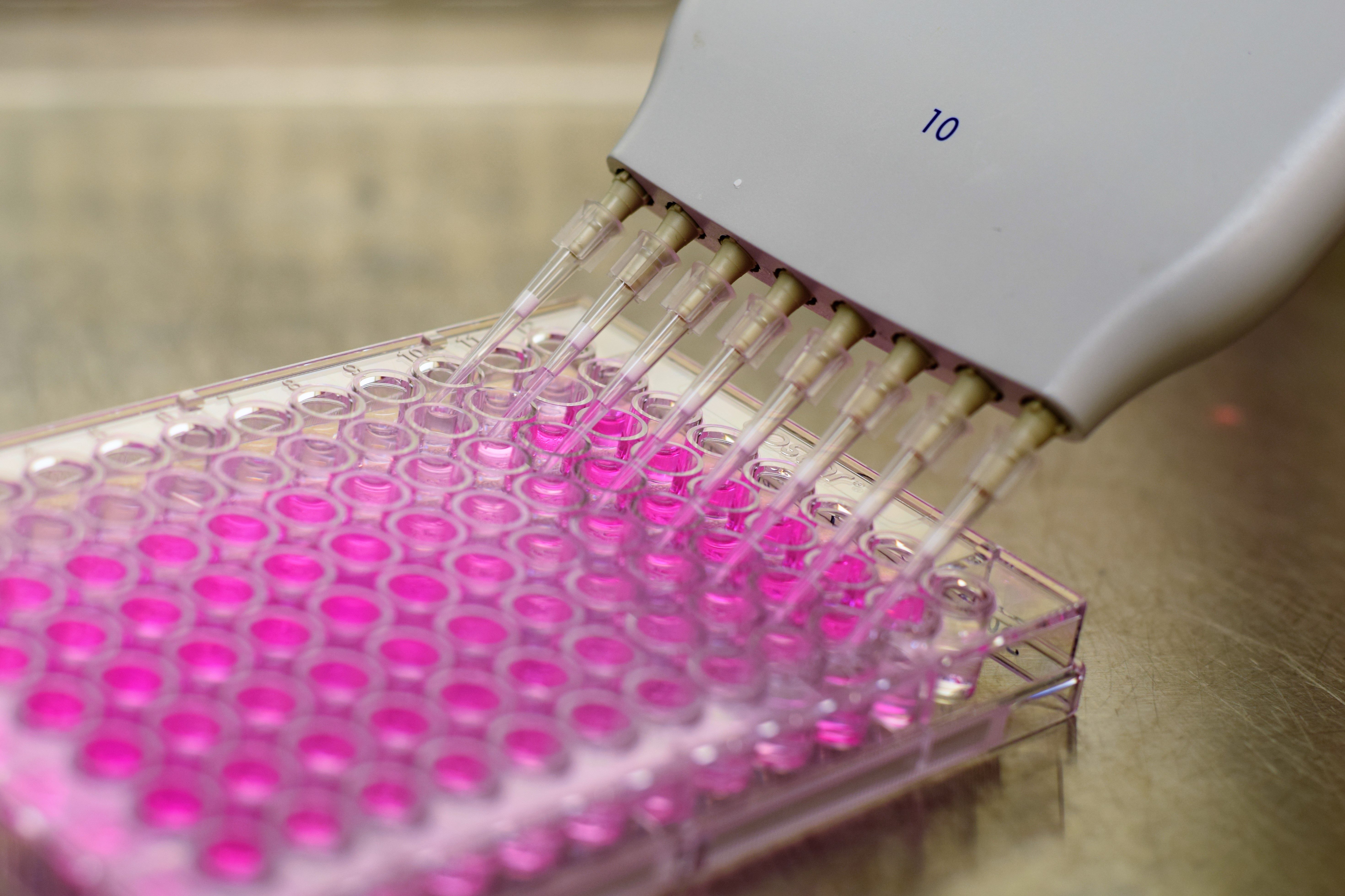 Biological assay in a 96-well plate